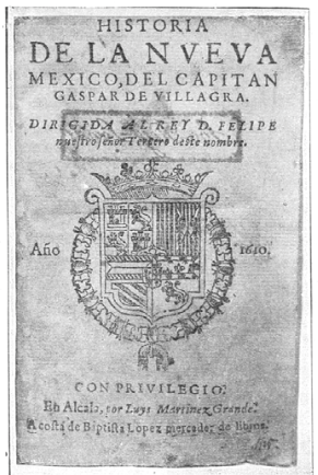 Historia de la Nueva México Cover